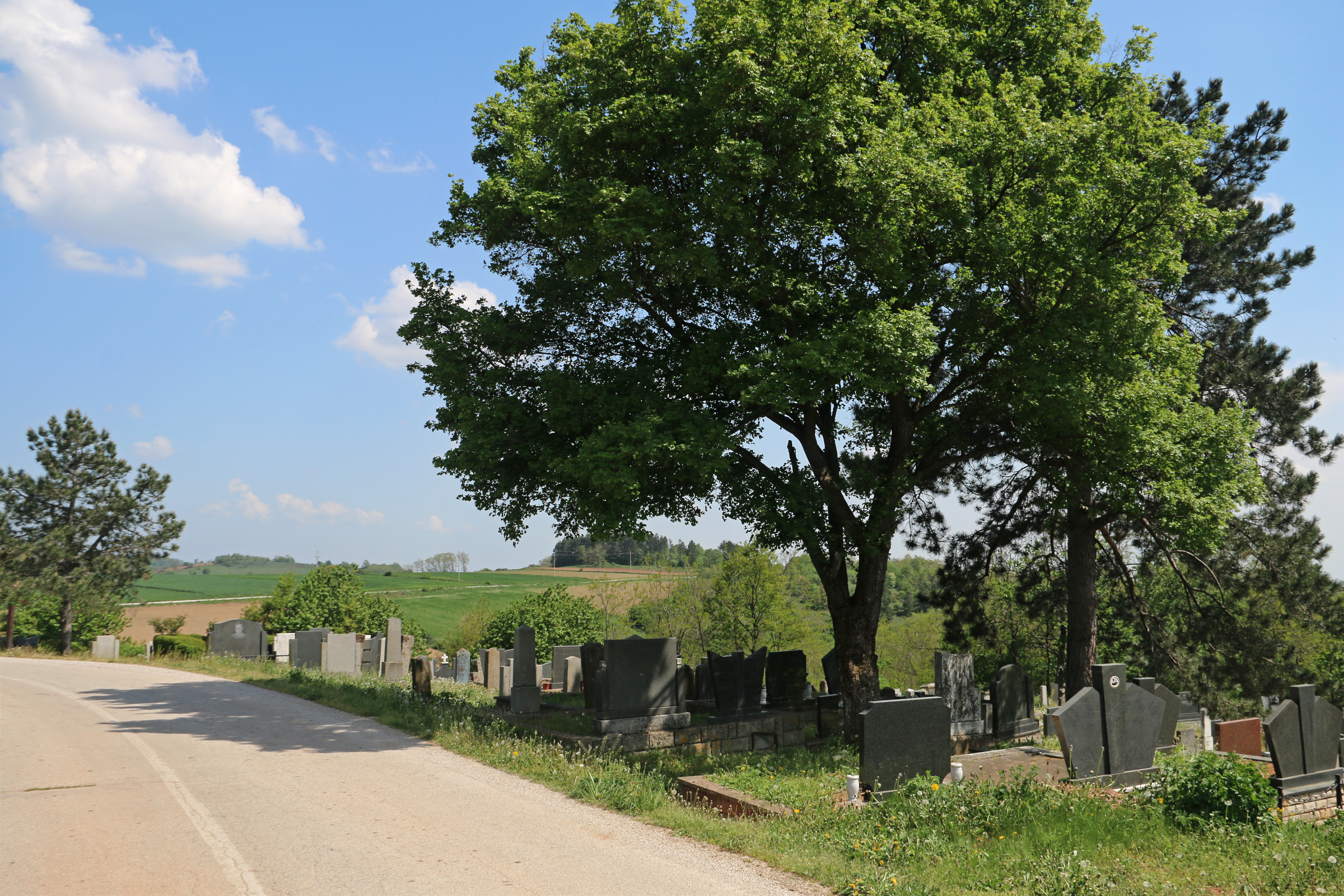 Old gravestones at the cemetery in the village of Brajici (the municipality of Gornji Milanovac), Serbia.